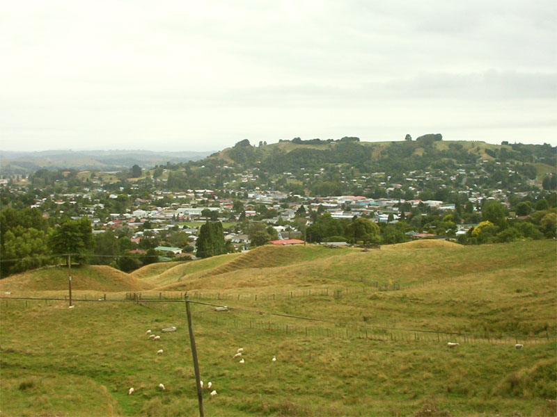 Te Kuiti, New Zealand - looking north from SH3 as it climbs out of the town